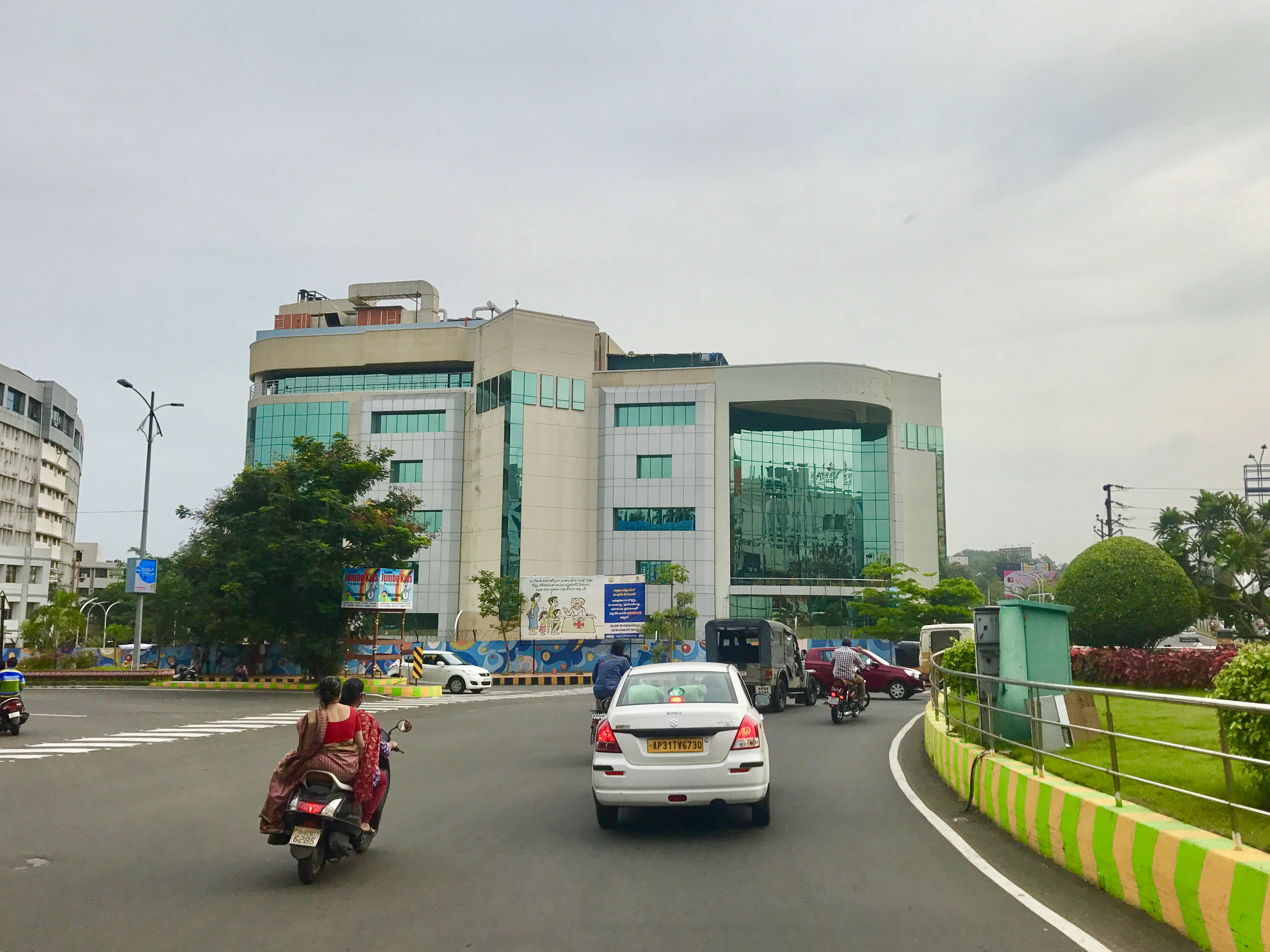 HSBC near Siripuram Junction in Waltair